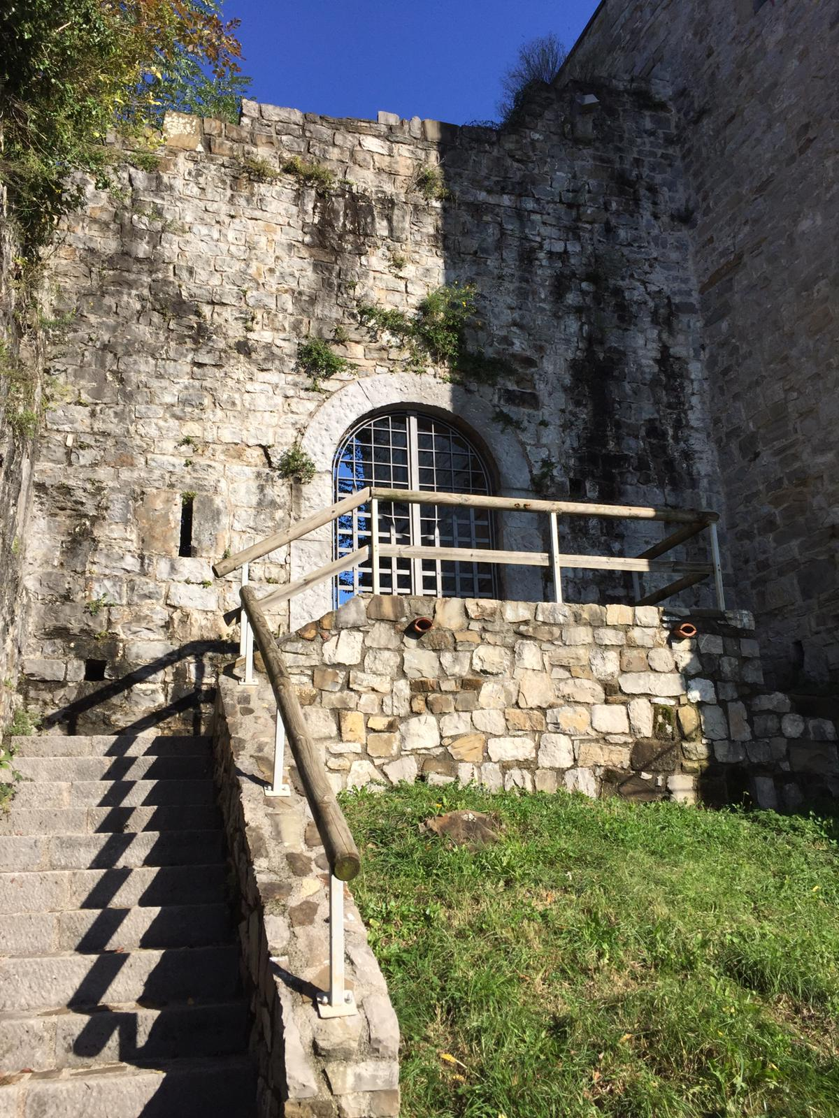 Zucco